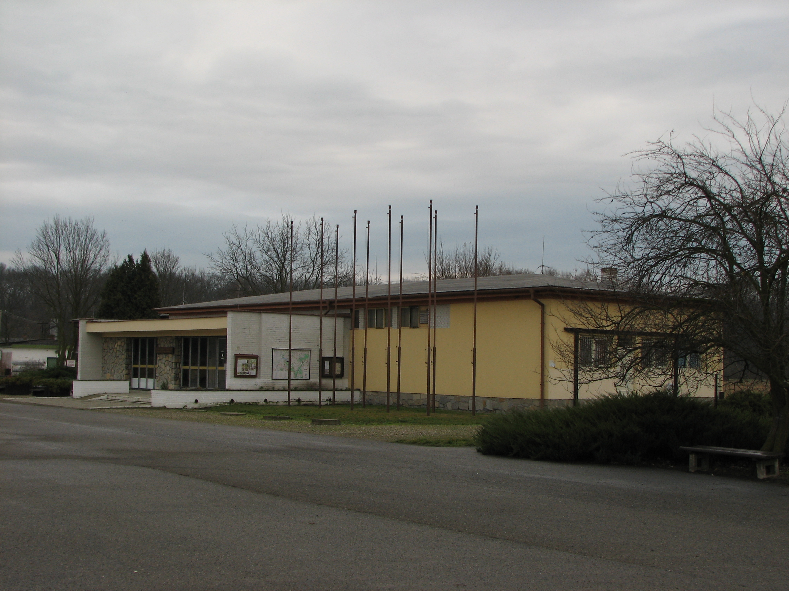 Mikulčice - former archaeological museum